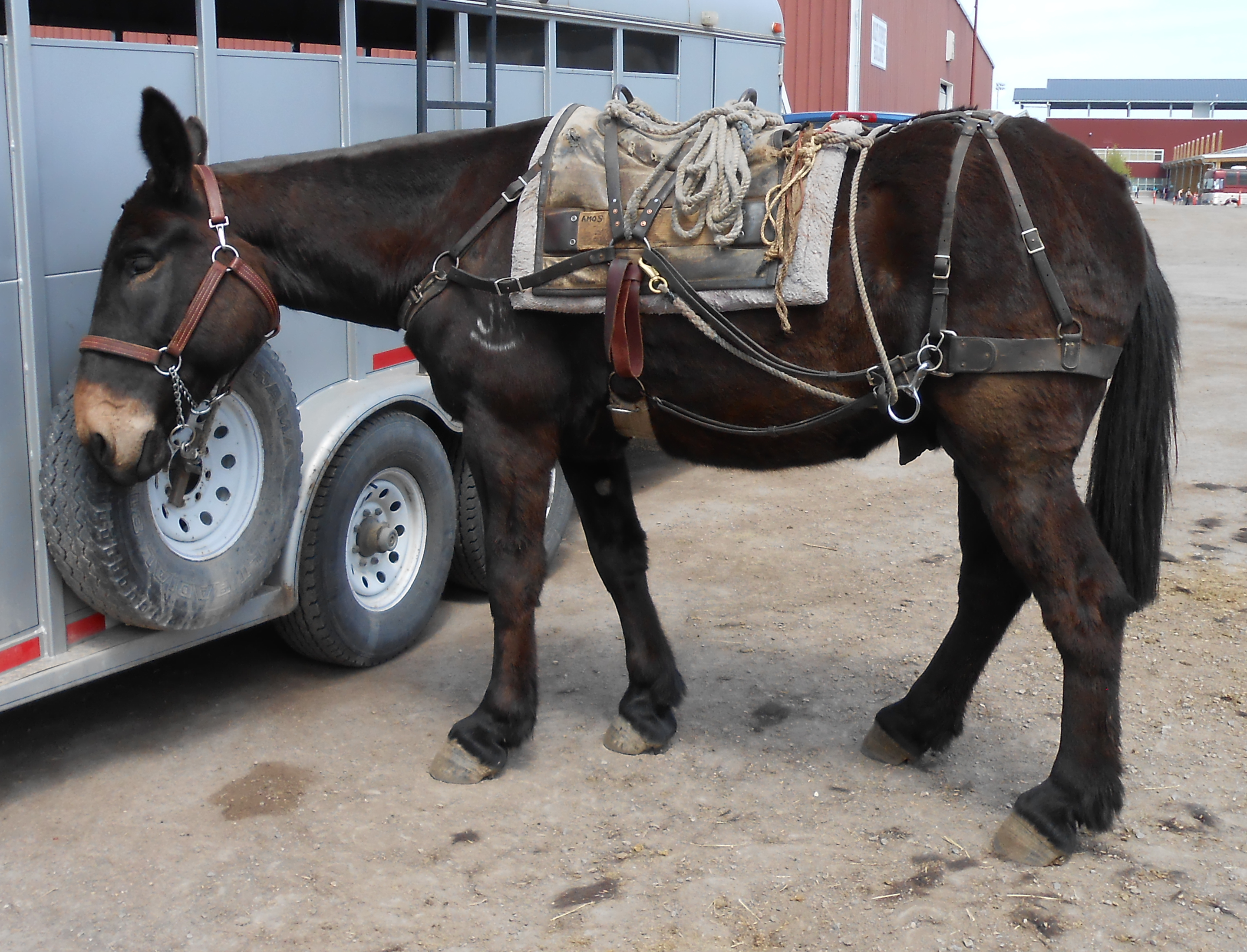 A mule wearing a pack saddle